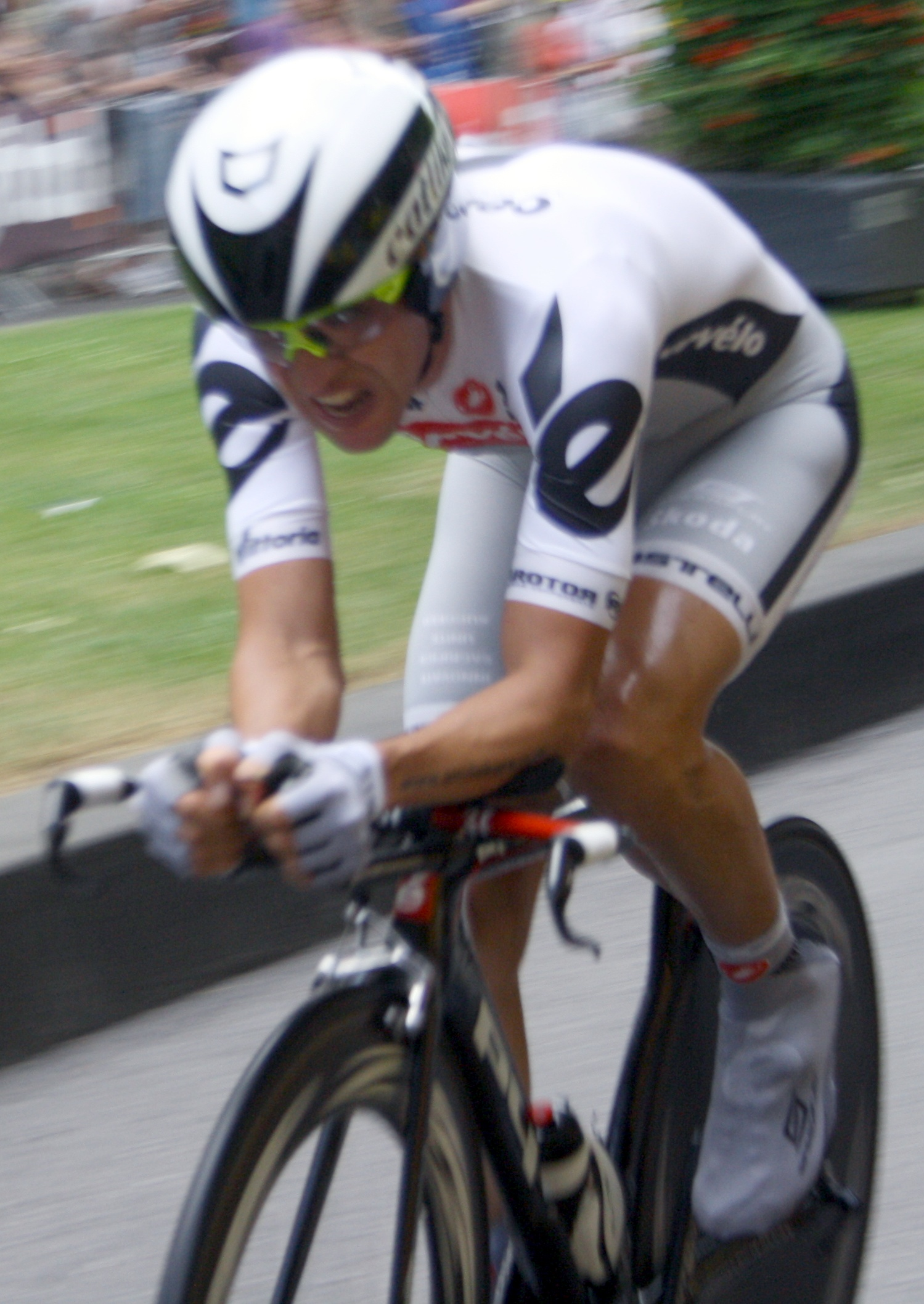 Carlos Sastre at the prologue of the 2010 Tour de France in Rotterdam